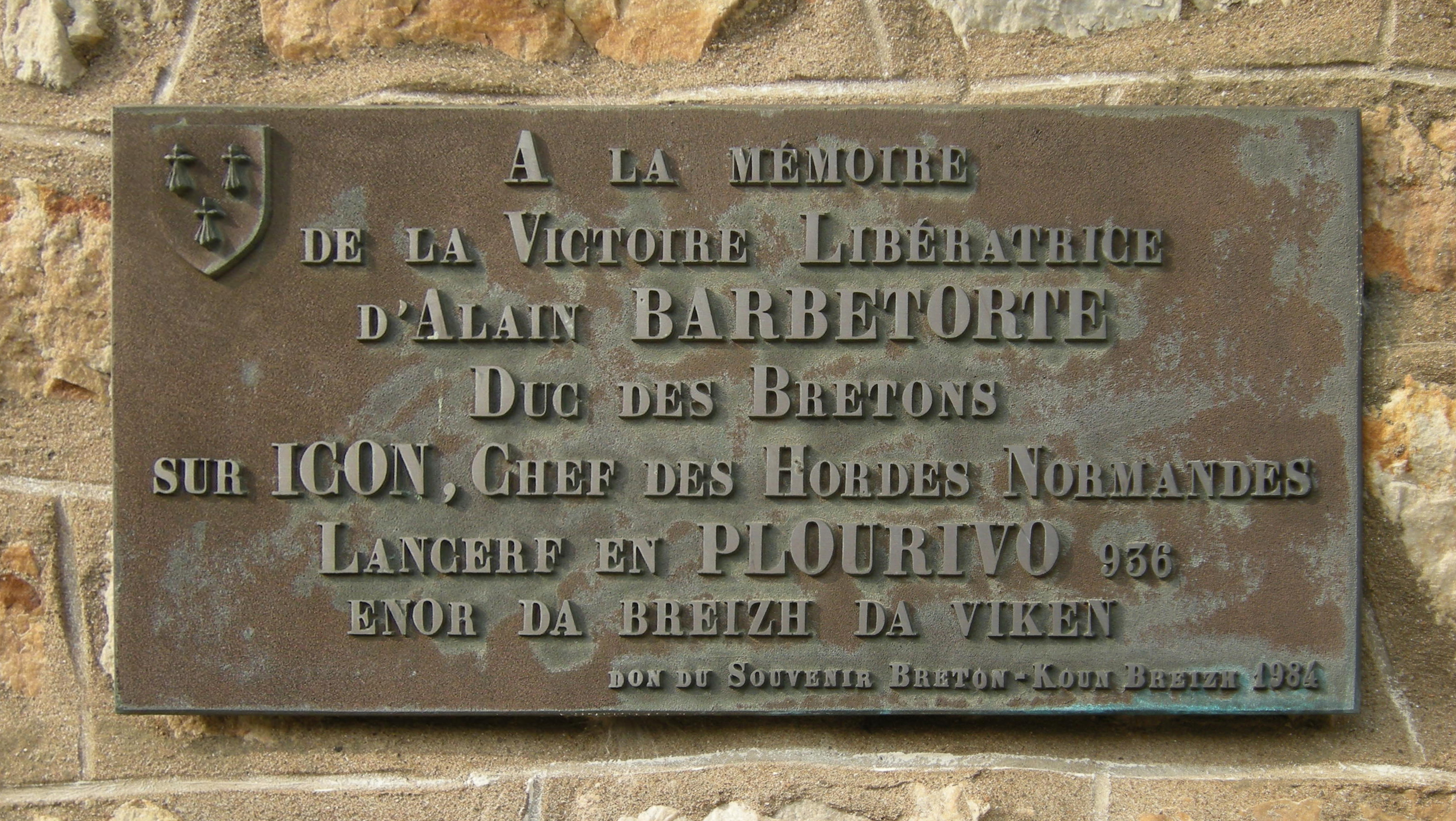 Allan II of Britanny (Barbetorte) - Incon from Normandy battle. Front of mairie de Plourivo (Côtes-d'Armor, France).